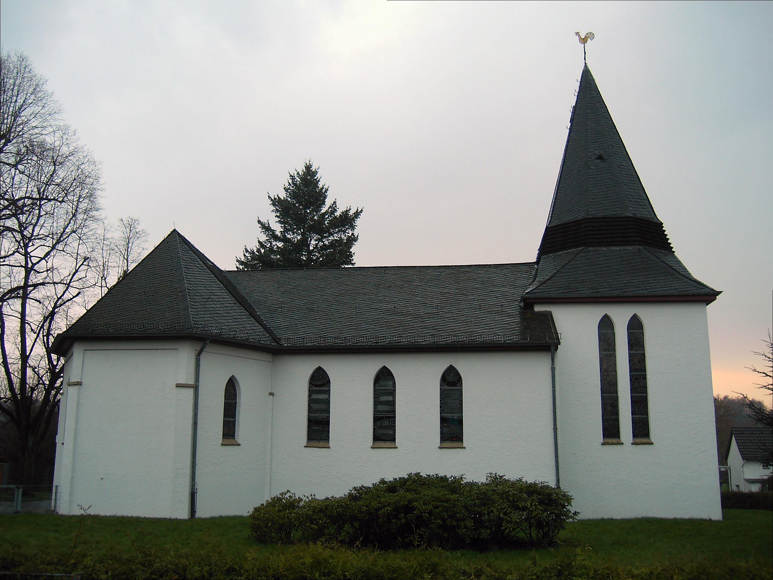 Church in Birlinghoven, district of Sankt Augustin